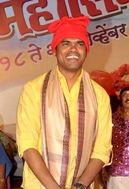 Actor Siddharth Jadhav at the Koli Festival organized by MNS.